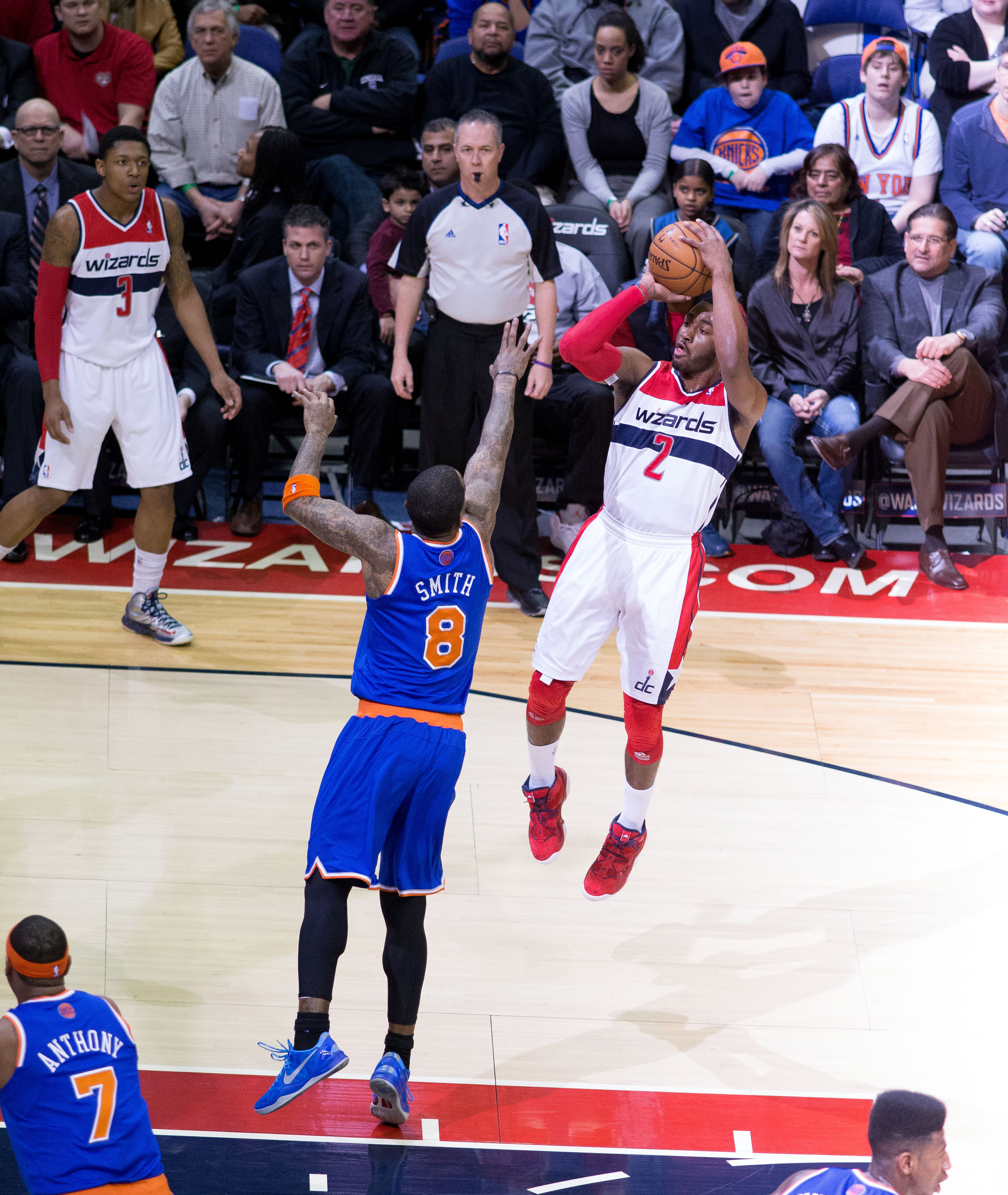 New York Knicks at Washington Wizards March 1, 2013